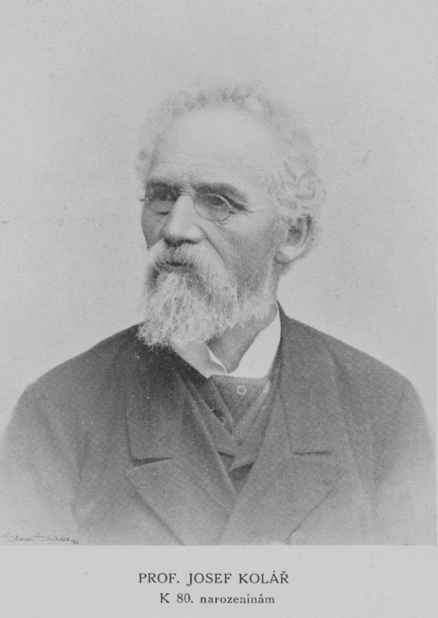 Josef Kolář, Czech slavist, translator, teacher